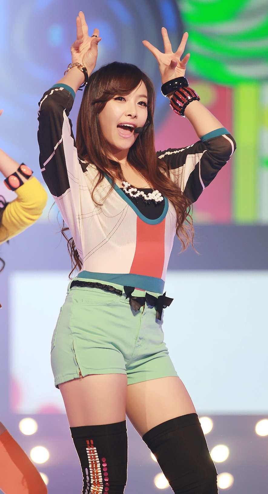 Victoria Song at the 2010 KBS Gayo Daejun in December 30, 2010.